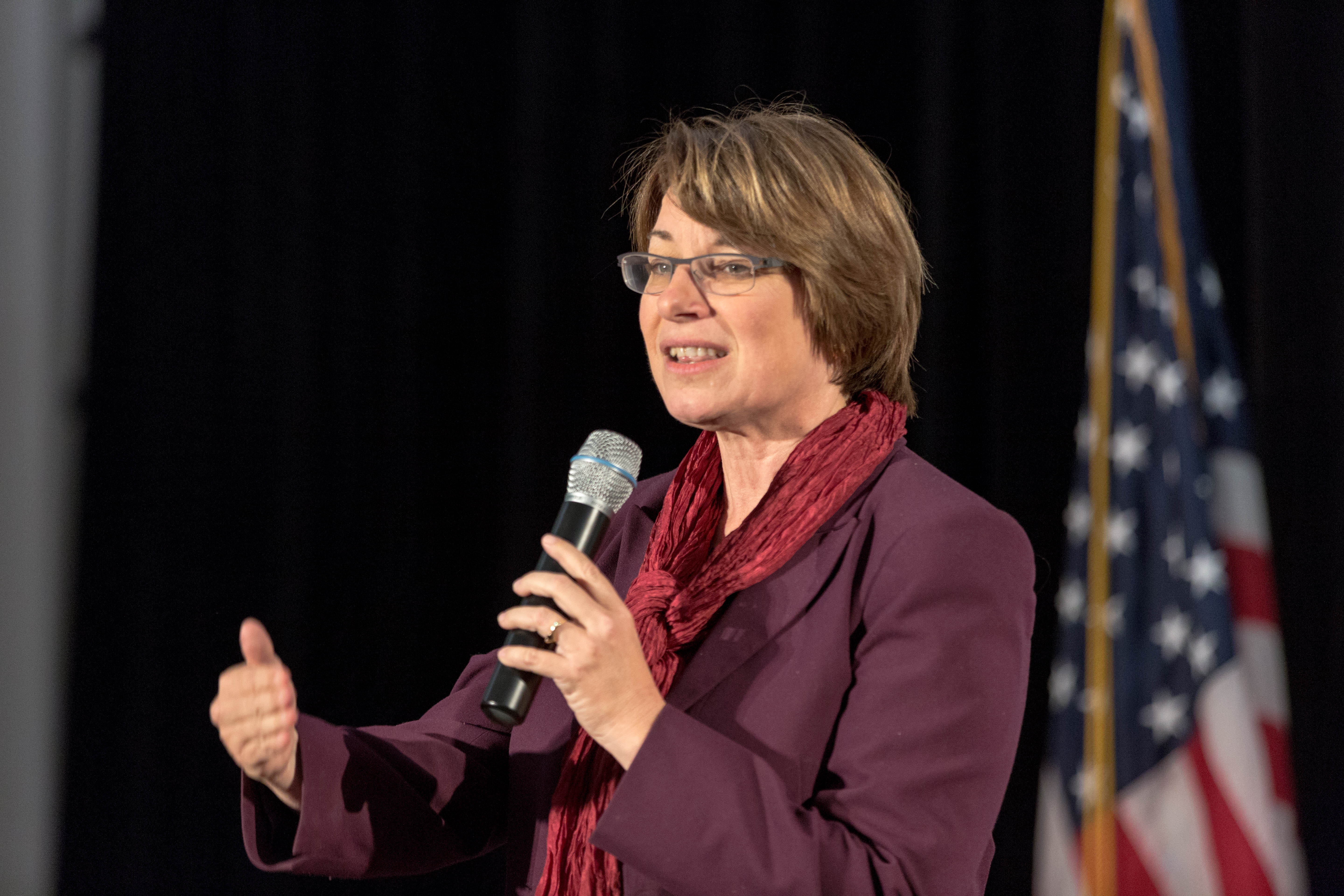 Senator Amy Klobuchar speaking in Minneapolis at a Hillary for MN rally at Plaza Verde